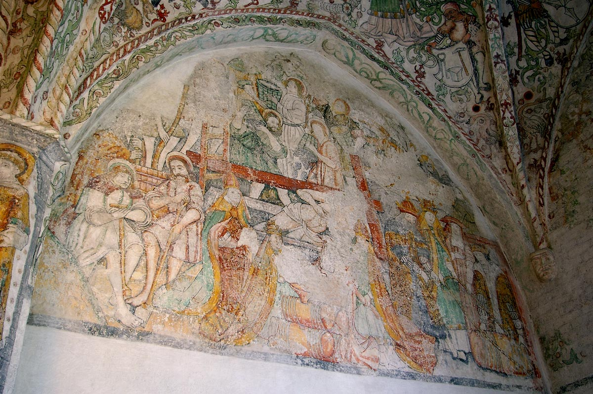 Paintings from 1460 in The Krämare chapel in St Peter church, Malmö, Sweden.